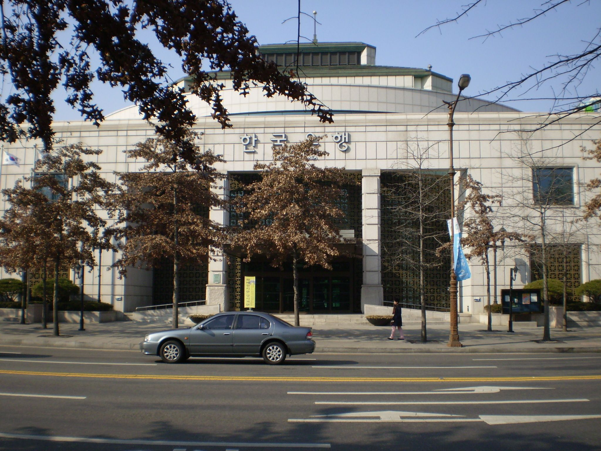 Local office of the Bank of Korea in Daegu, South Korea.